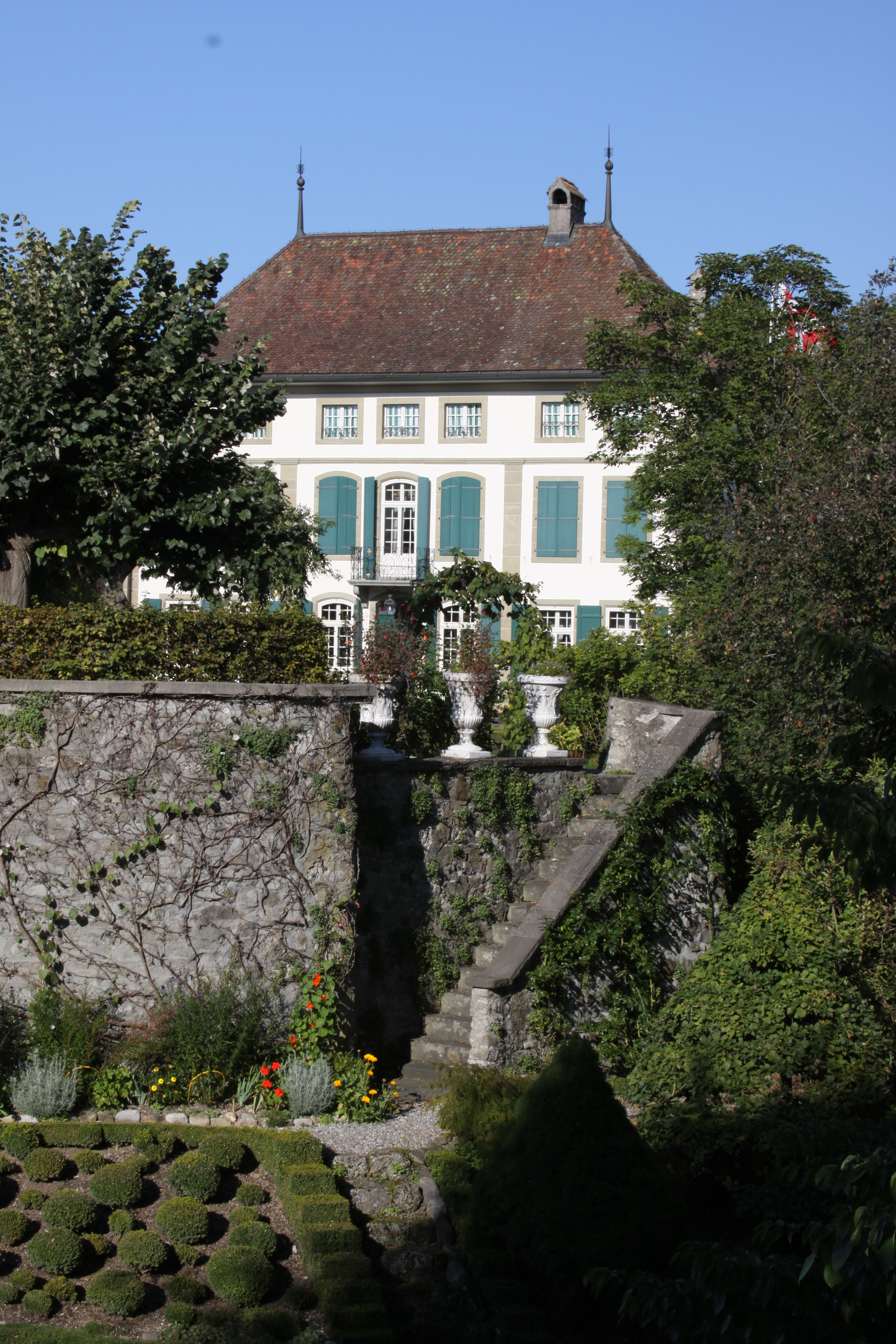 Bailiff's Castle, Rue des Châteaux 27, Vuippens-Marsens